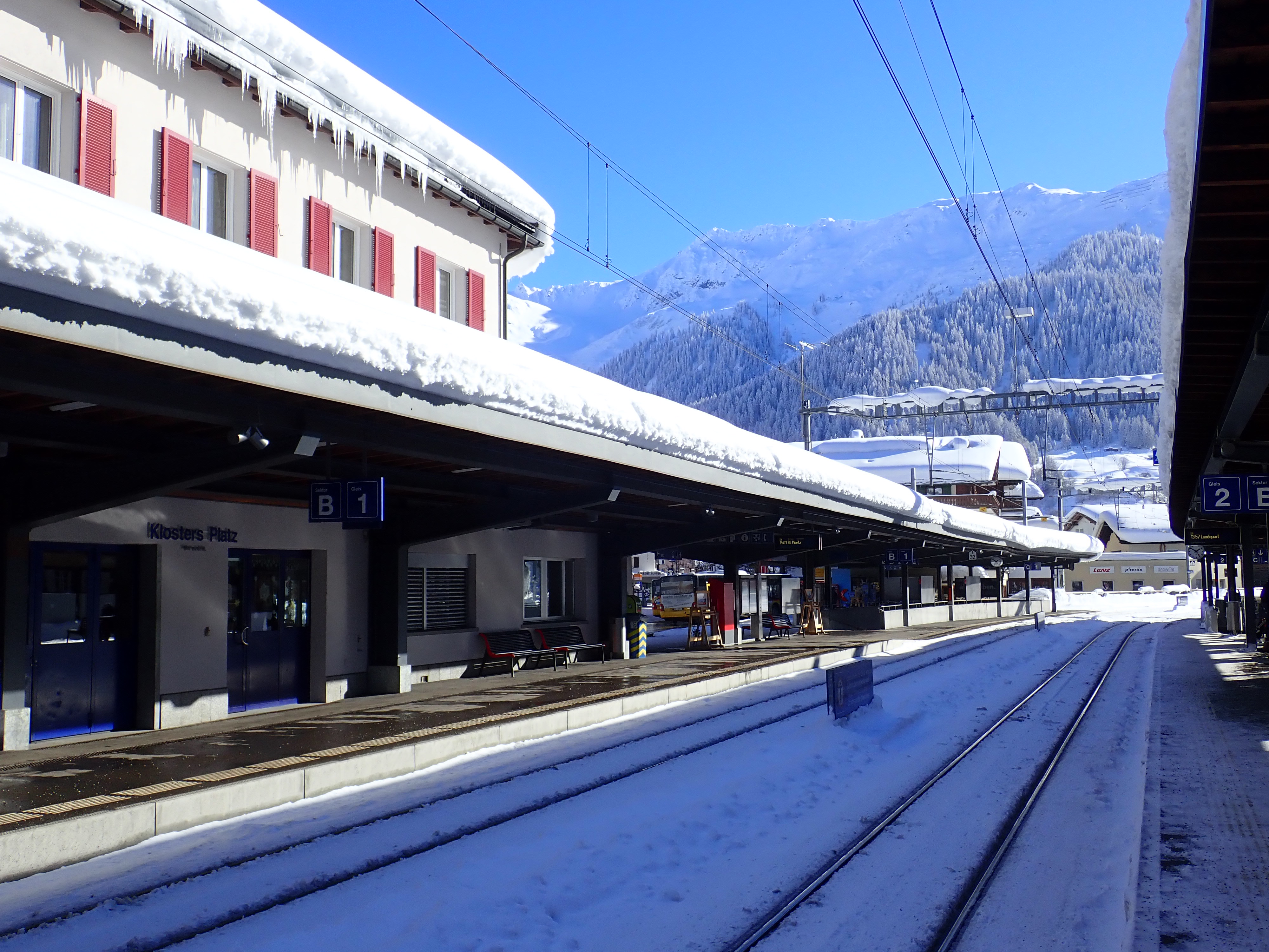 Klosters Platz train station in winter